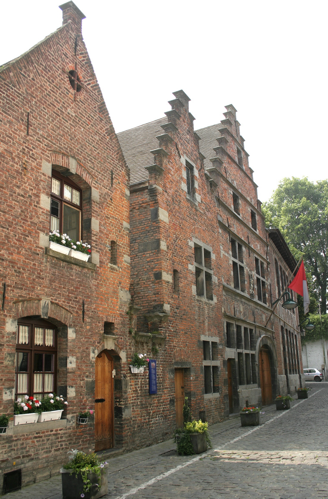 Tournai (Belgium), Réduit des Sions, 32-36 - La Maison Tournaisienne (XVIIth century) actual Folklore Museum.